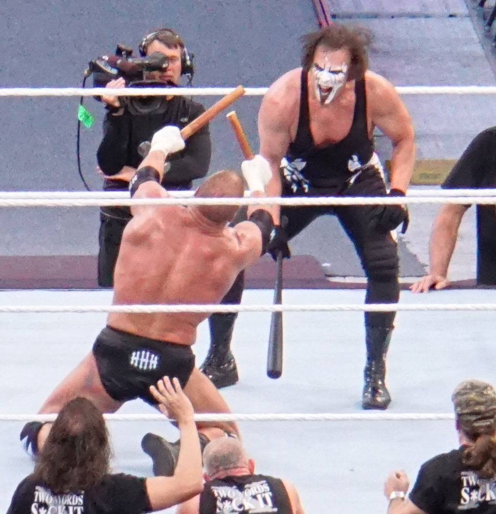 Sting wields his bat at Triple H